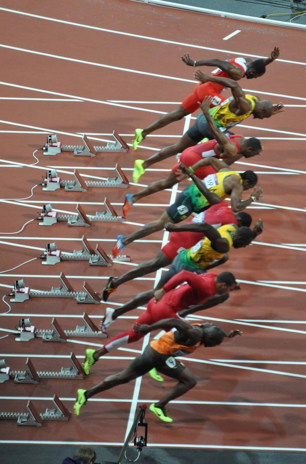 Start of mens 100m